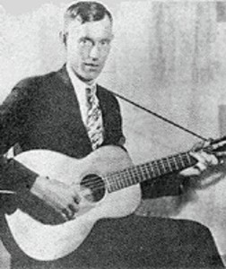 American old-time singer and blues guitarist Frank Hutchison, middle or late 1920s